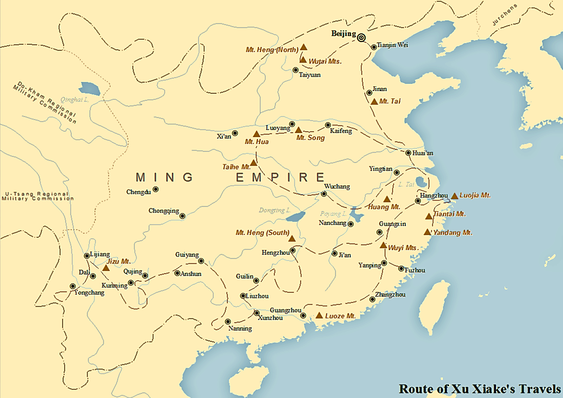 Map showing the travel routes of the geographer Xu Xiake in Ming dynasty of China